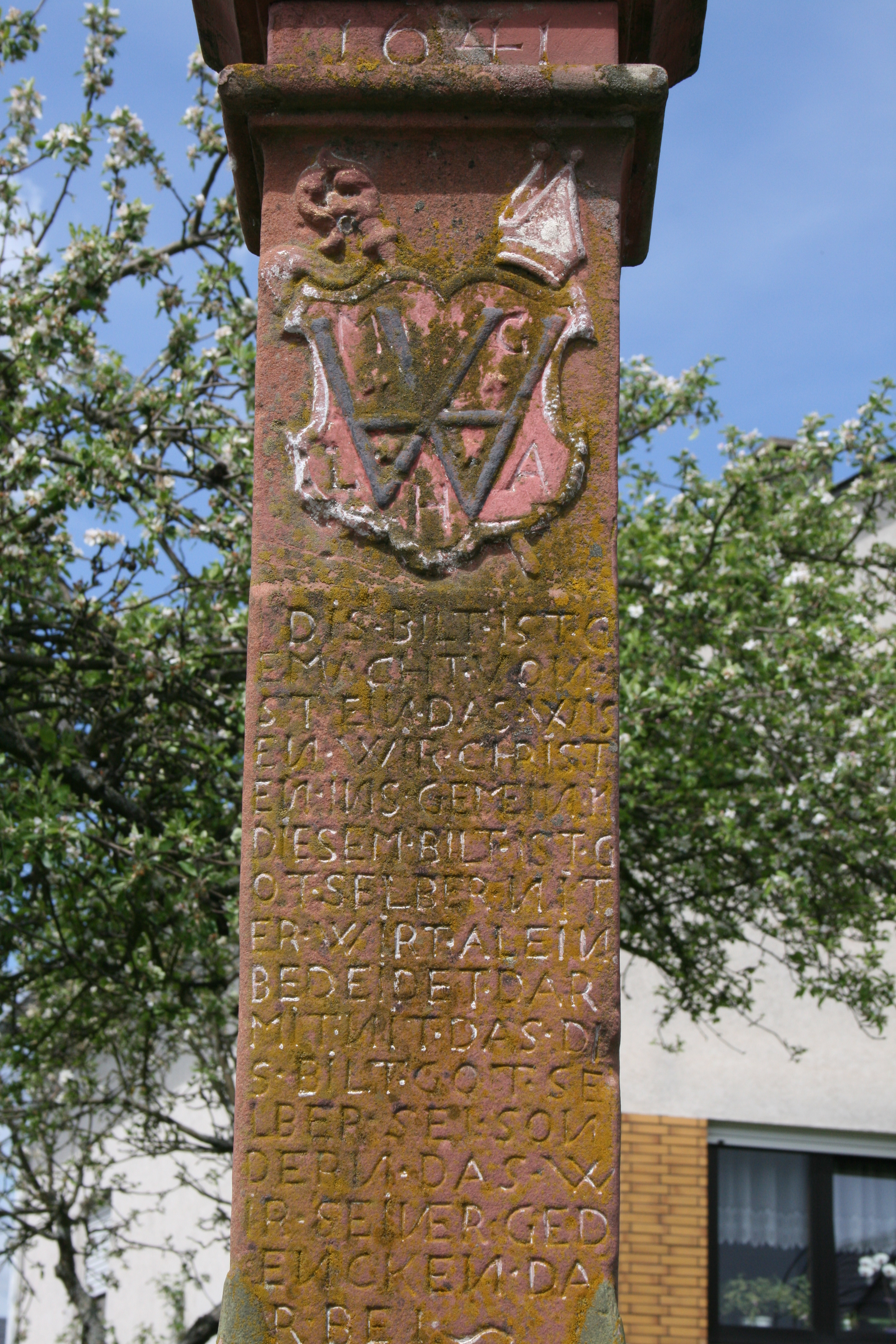 Detail of the Glabuskreuz in Lieser with the date 1641